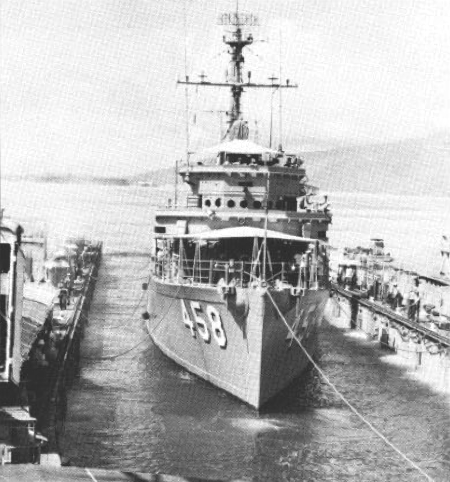 The U.S. Navy minesweeper USS Lucid (MSO-458) entering the floating dry dock USS Windsor (ARD-22) at Subic Bay, Philippines, circa 1968.